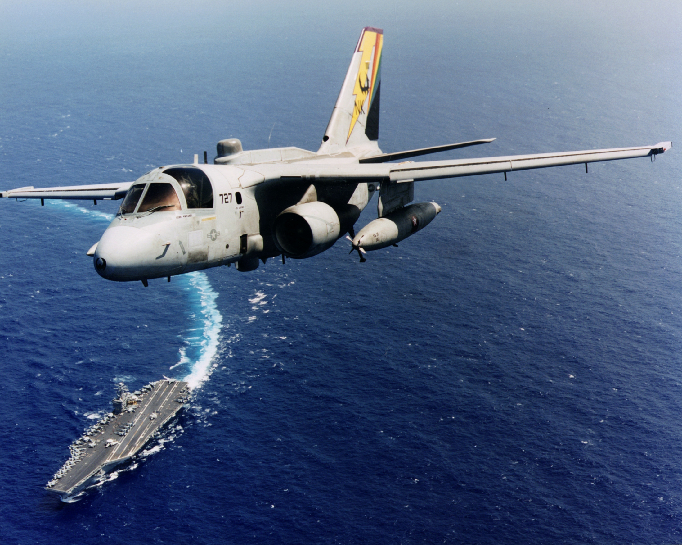 A U.S. Navy Lockheed ES-3A Shadow (BuNo 159404) of Fleet Air Reconnaissance Squadron VQ-5 Sea Shadows pictured in flight over the aircraft carrier USS Abraham Lincoln (CVN-72). The aircraft wears colorful markings of the Commander, Air Group (CAG) and was assigned to Detachement 14, Carrier Air Wing 14 (CVW-14), on board the Abraham Lincoln for a deployment to the Western Pacific and the Indian Ocean from 11 June to 11 December 1998.